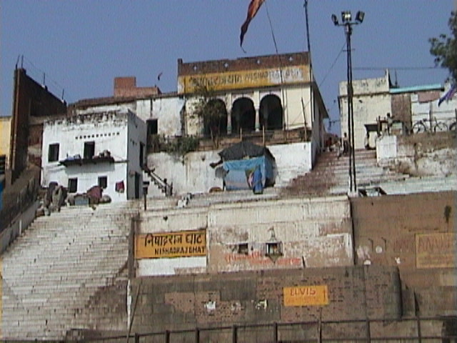 See Varanasi Development Cooperation Handbook/Stories/Responsible Development - Varanasi The Varanasi Heritage Dossier Kautilya Society Mediendatei abspielen Vrinda Dar - How we got involved in heritage protection of Varanasi